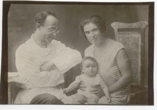 Aaron Baron in exile with second wife Fanny Avrutskaya and daughter Voltairine.